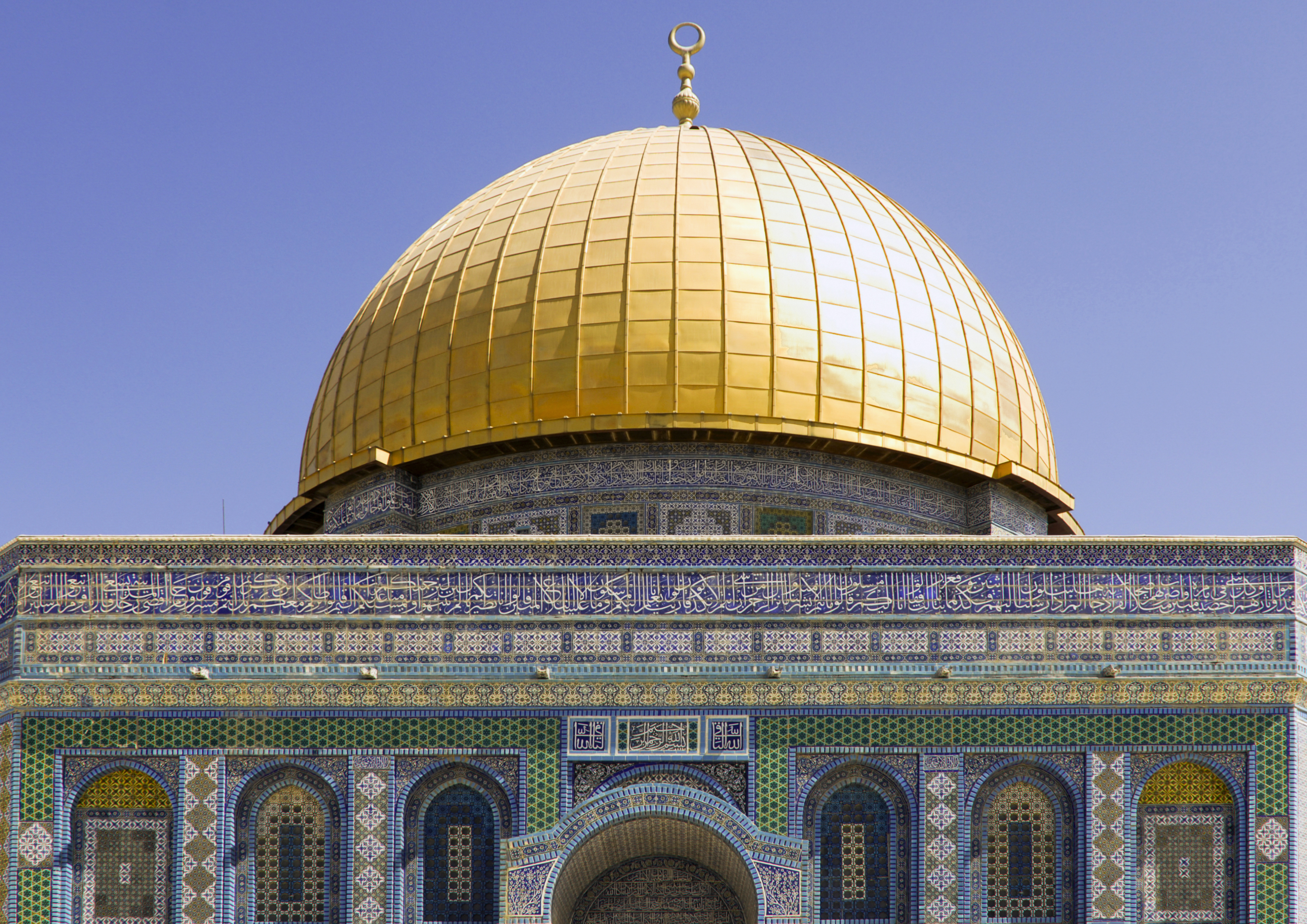 Southern façade of The Dome of the Rock (Arabic: مسجد قبة الصخرة, Hebrew: כיפת הסלע), on the Temple Mount in the Old City of Jerusalem.